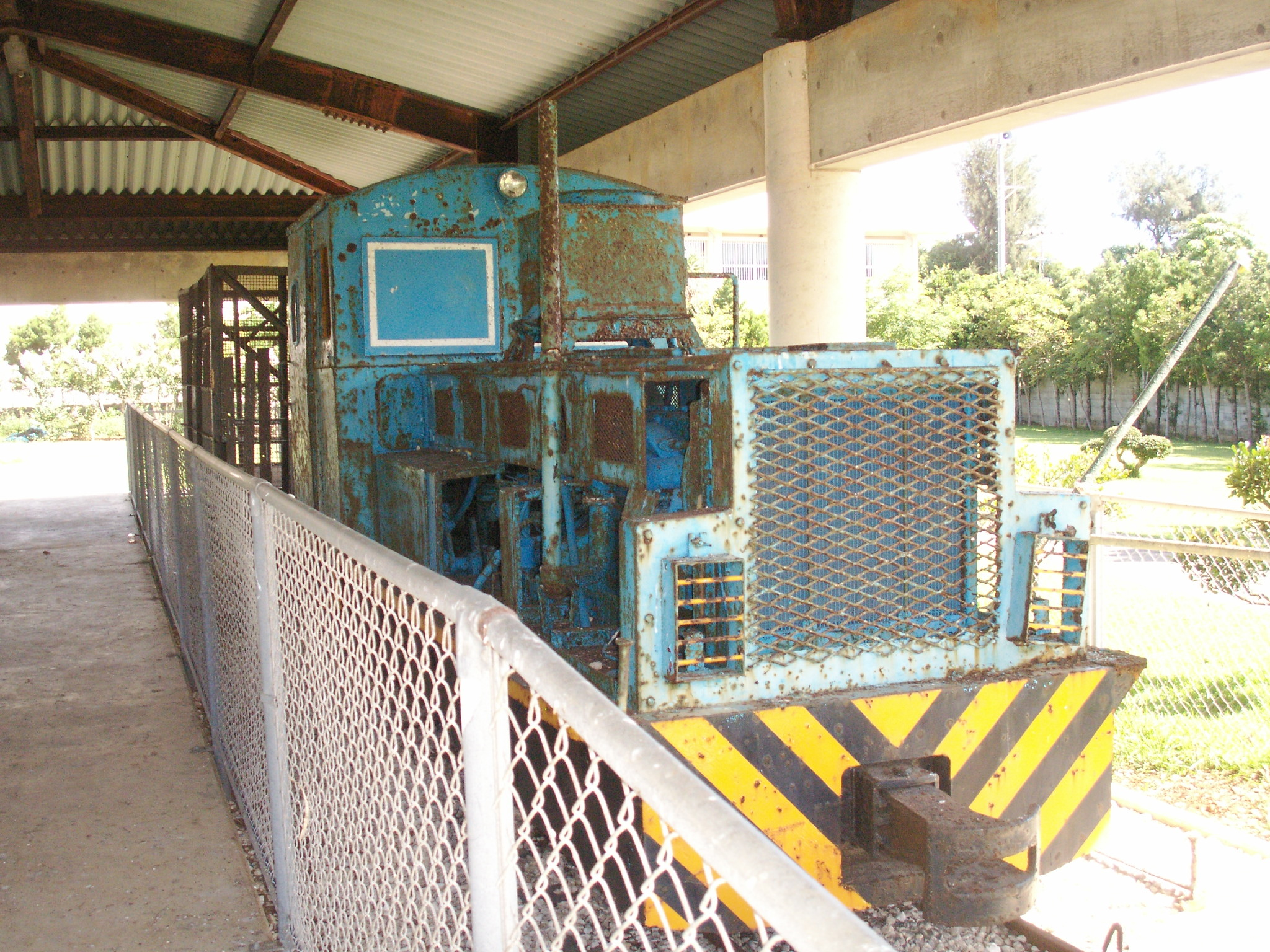 A locomotive in Minamidaito Village in Okinawa Prefecture, Japan